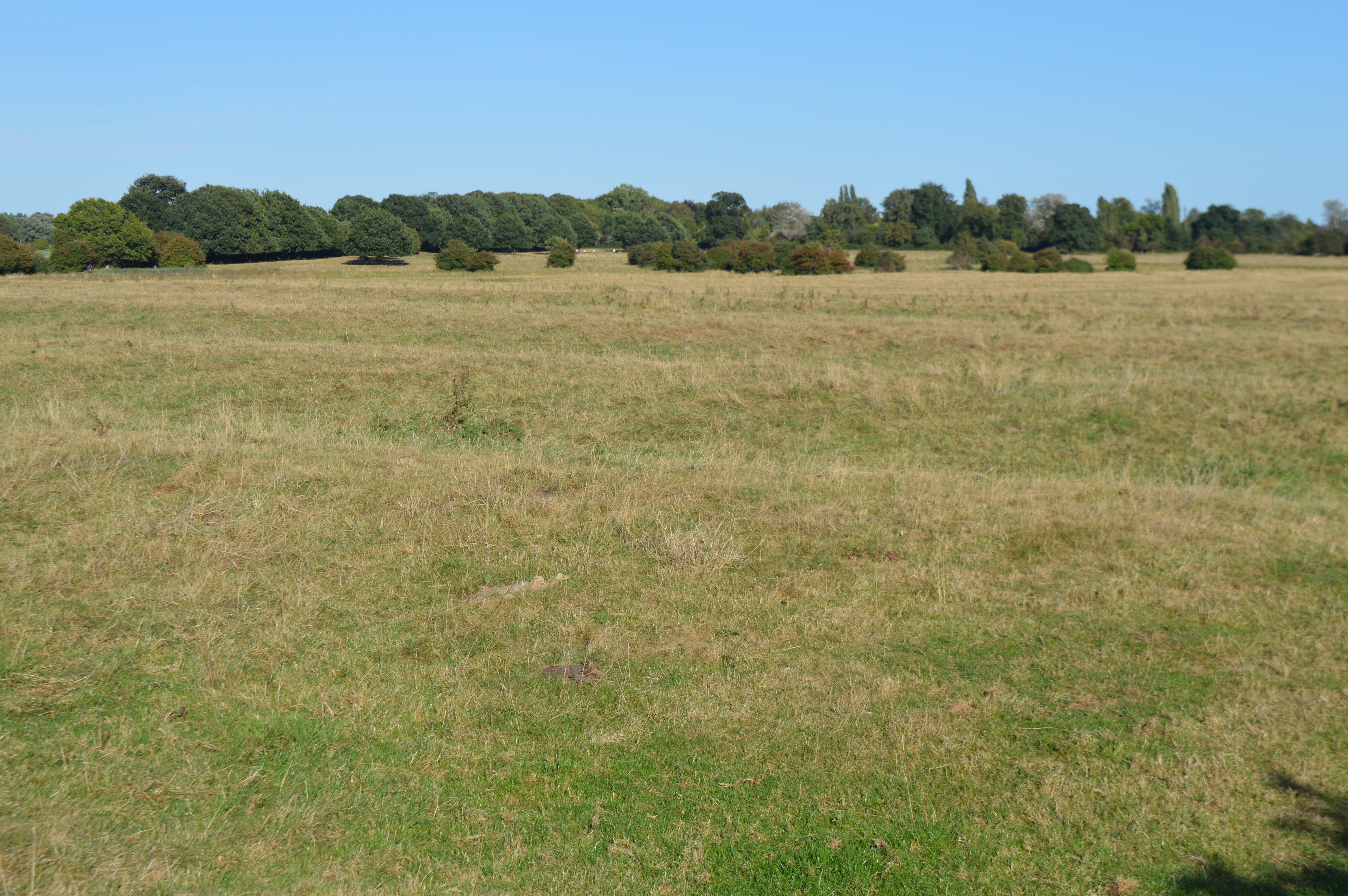 Godmanchester Eastside Common is a biological Site of Special Scientific Interest north-east of Godmanchester in Cambridgeshire